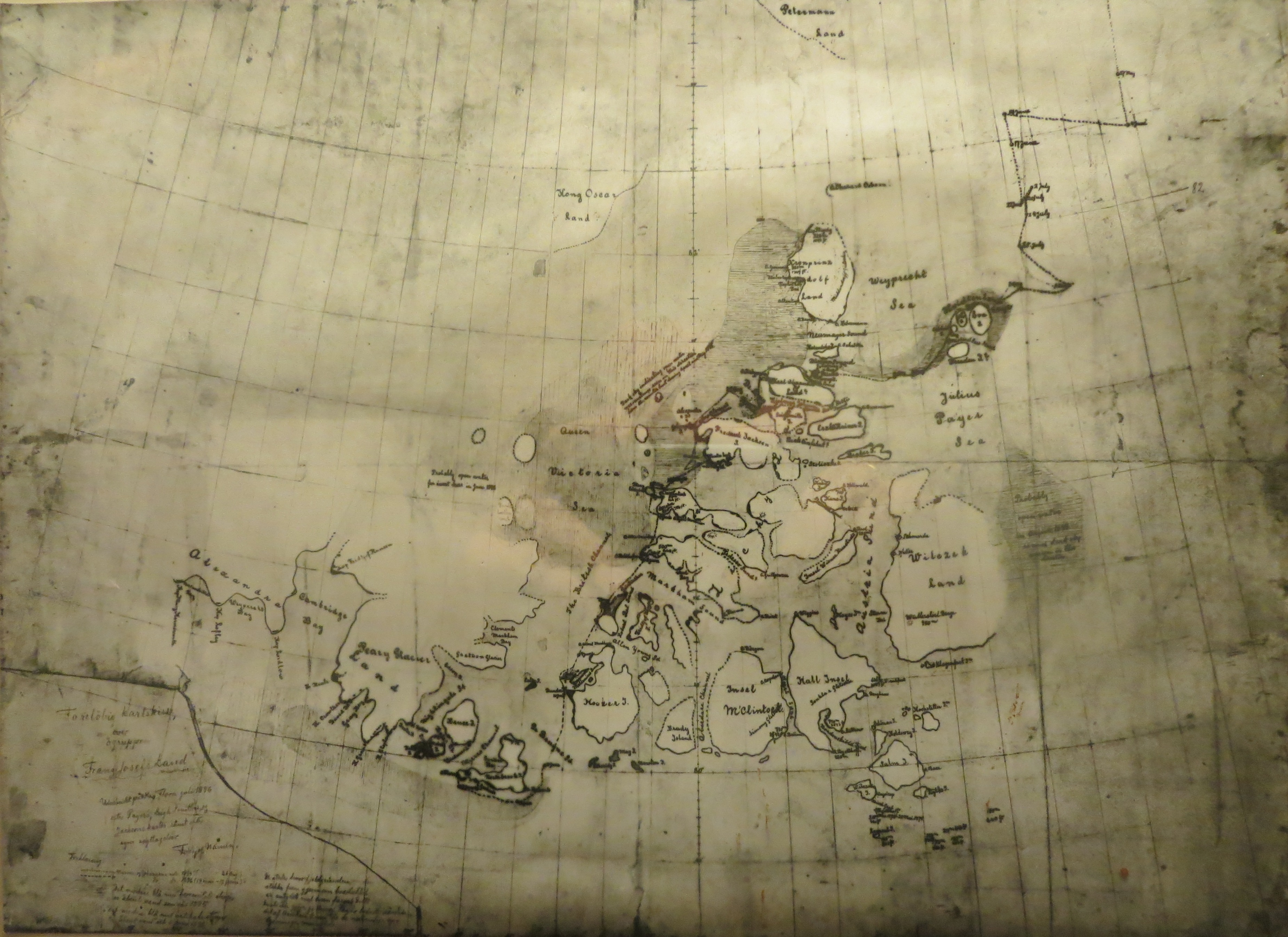 Artifacts from the Fram museum in Oslo, Norway.This is the route taken by Fridtjof Nansen and Hjalmar Johansen during their 1895-96 expedition towards the North Pole, which ended at Franz Josef Land.